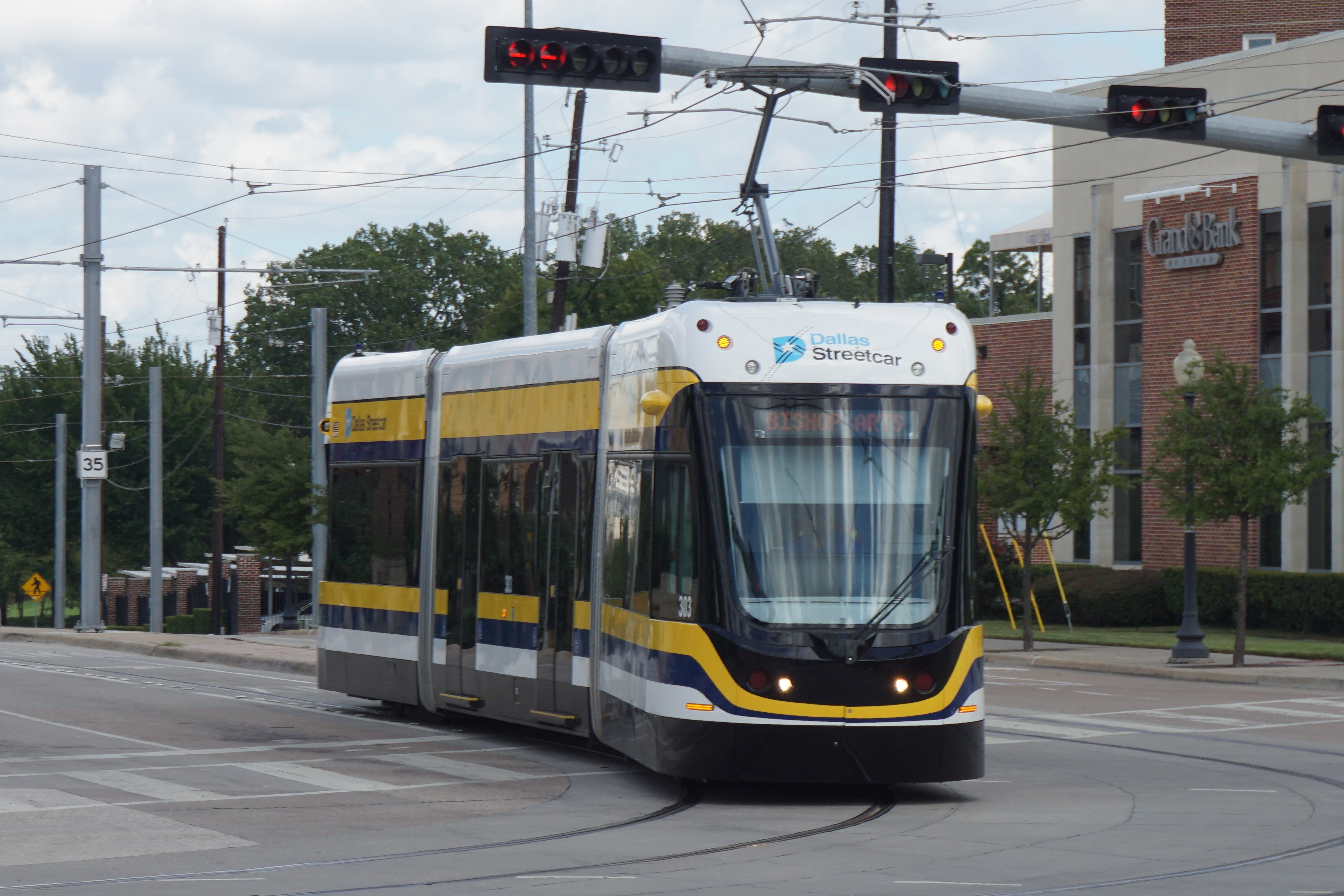 A Dallas Streetcar in the Oak Cliff neighborhood in Dallas, Texas (United States).